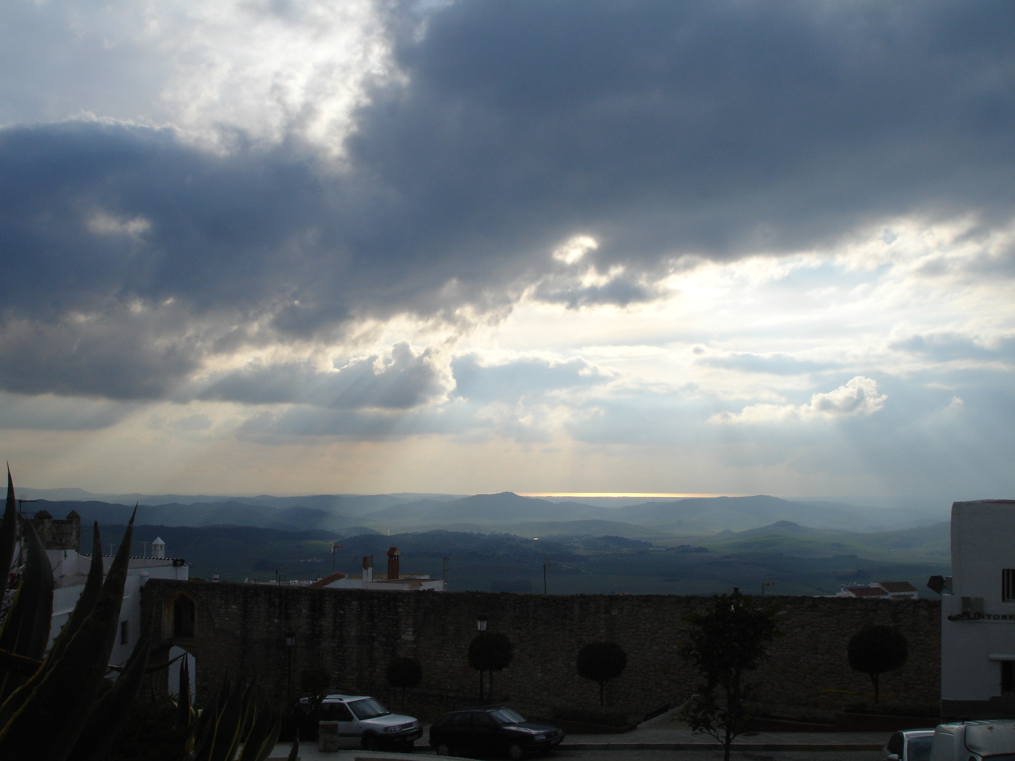 View from Medina Sidonia, Andalusia (Spain)